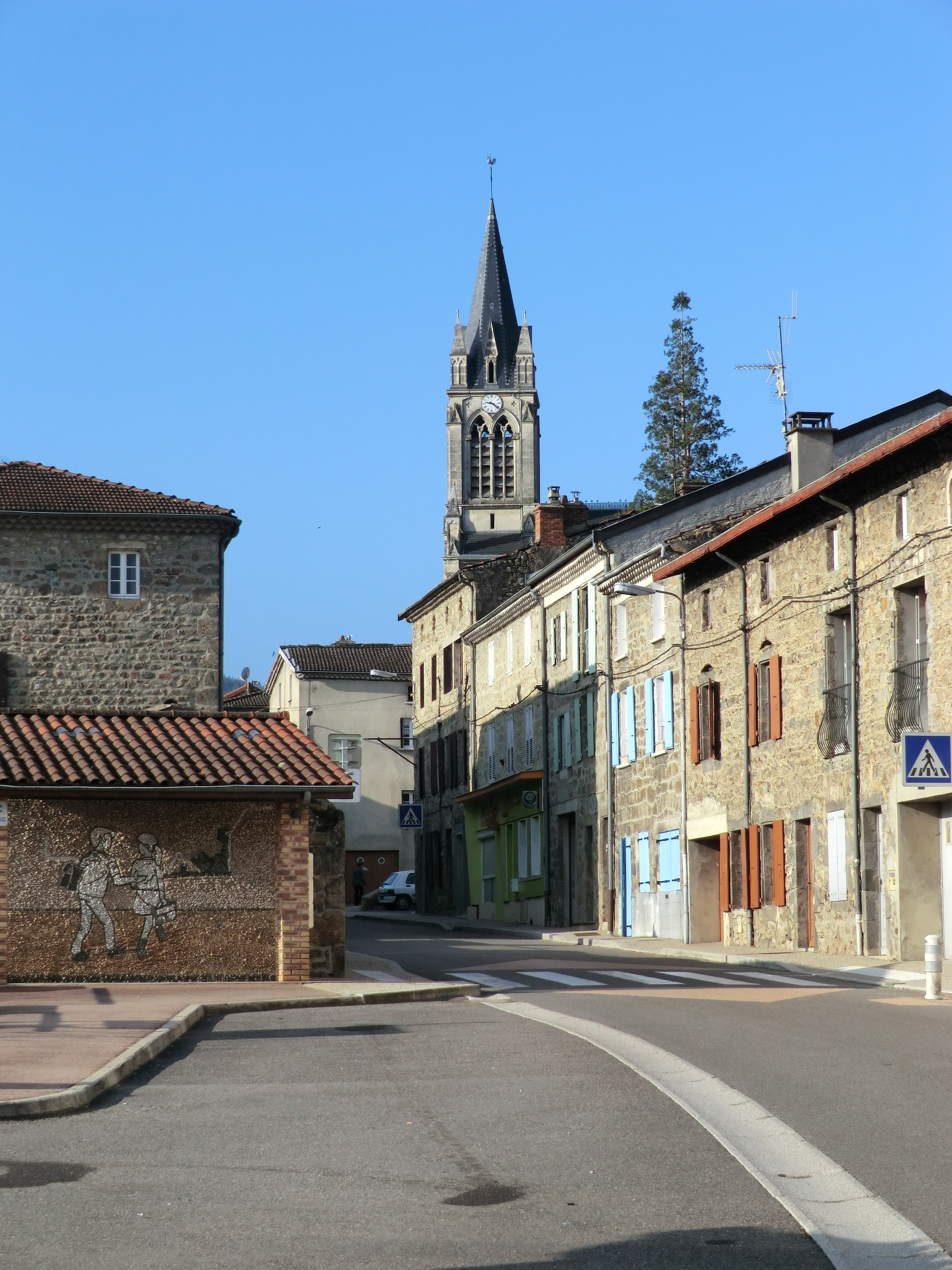 Village and church of Villevocance.